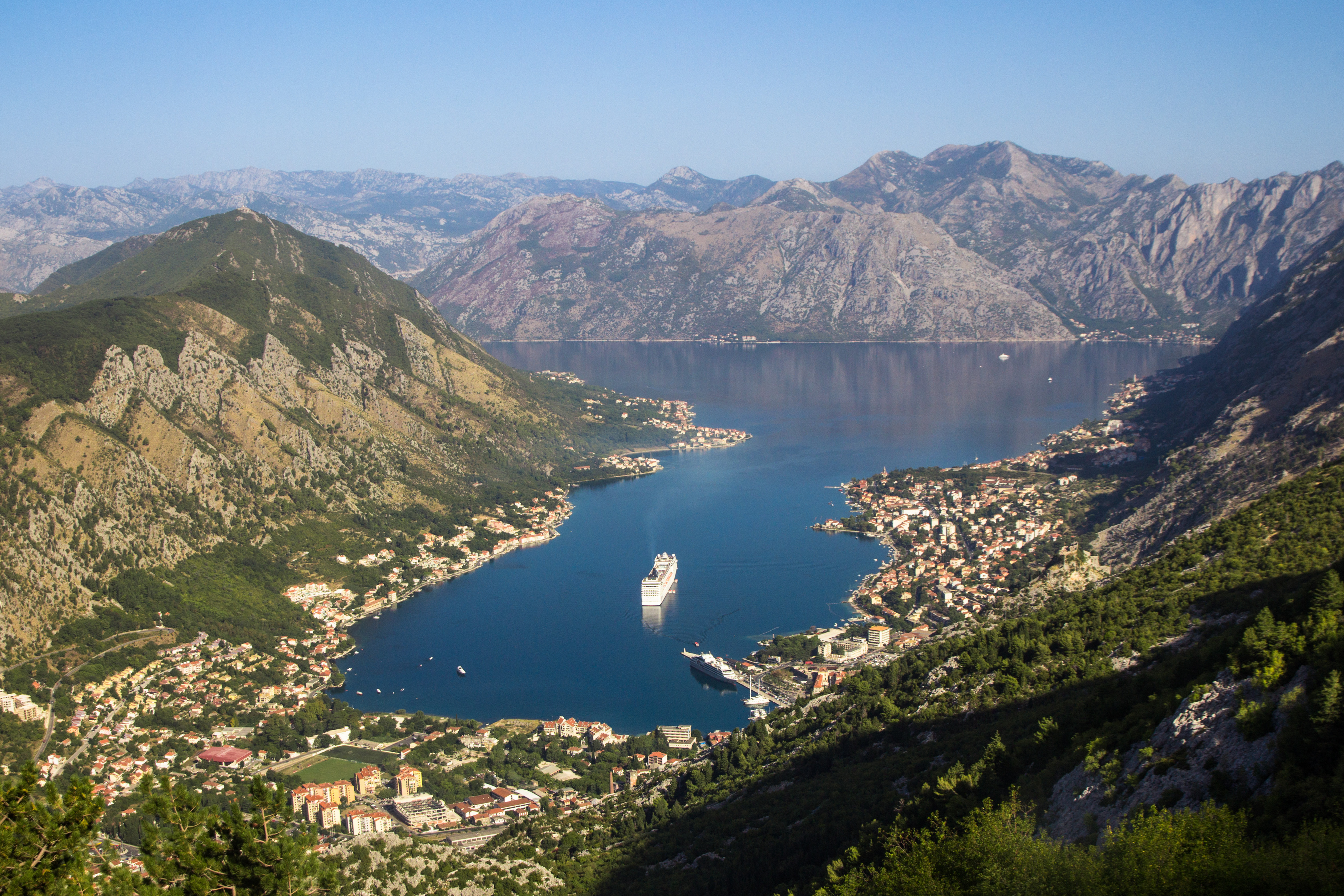 Bay of Kotor